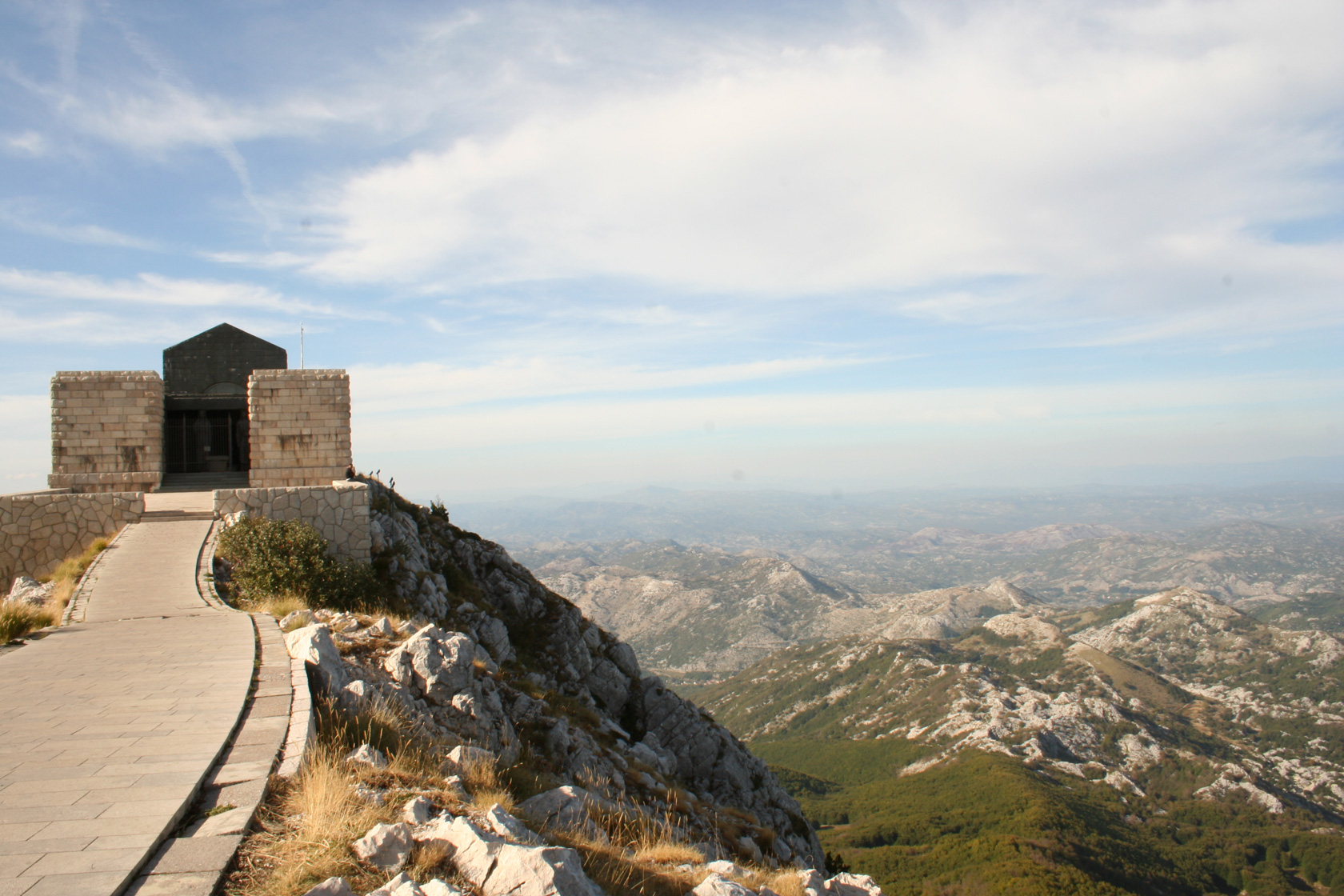 like serbia without the soil. Taken from michael tyler -geoblog .